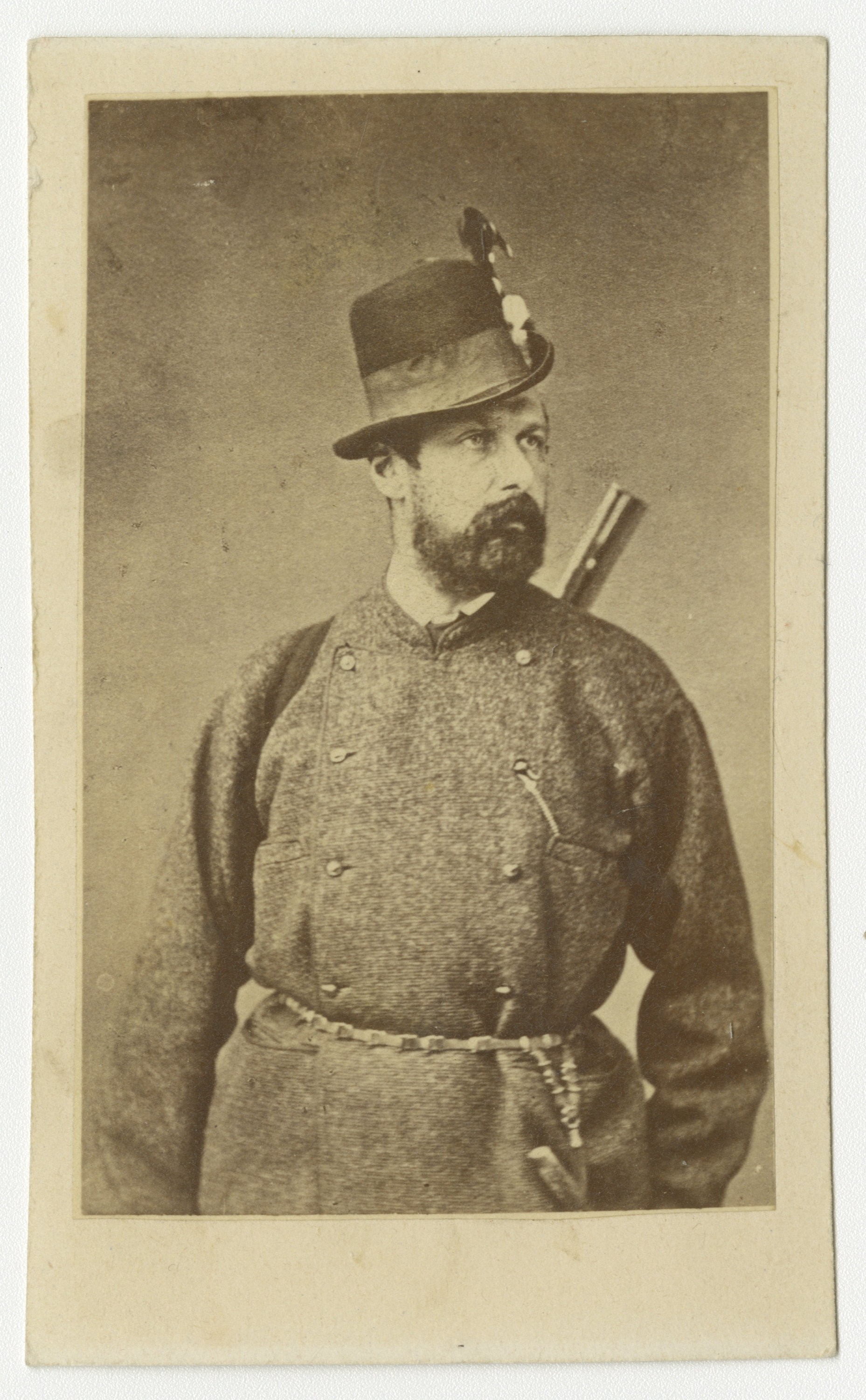 King Charles XV of Sweden in hunting clothes